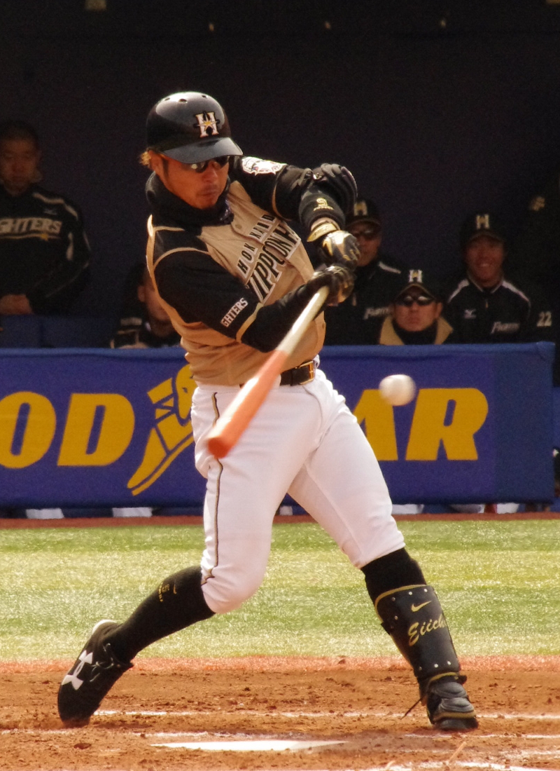 Eiichi Koyano, infielder of the Hokkaido Nippon-Ham Fighters, at Yokohama Stadium.